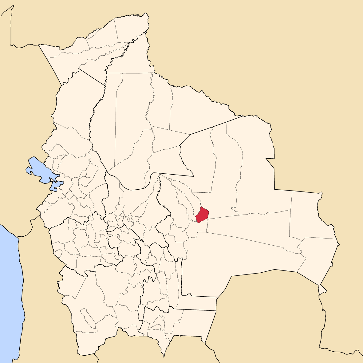 Map of Bolivia showing Ignacio Warnes province, Santa Cruz